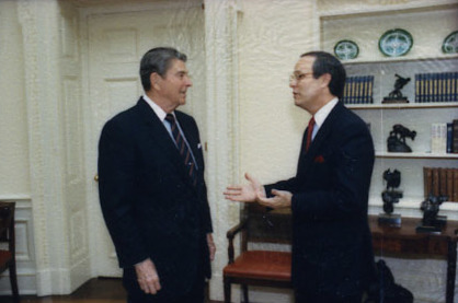 President Ronald Reagan and Frank Fahrenkopf (4-24) Meeting with Frank Fahrenkopf President Ronald Reagan, Edmund Morris, and Jim Kuhn (25-26) Talking to unidentified secretary